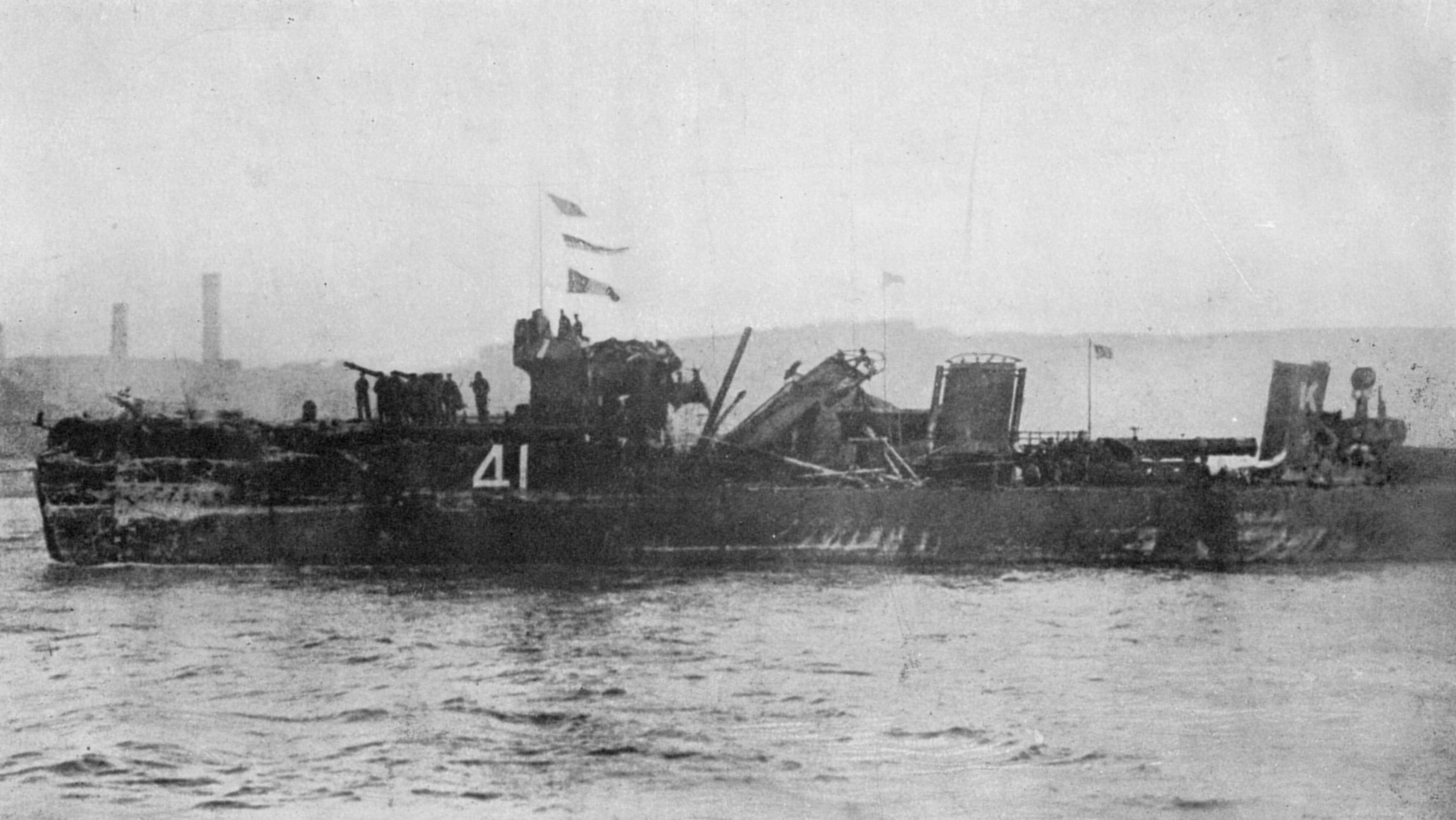 Photograph of British destroyer HMS Spitfire after the Battle of Jutland, showing damage sustained in the battle.